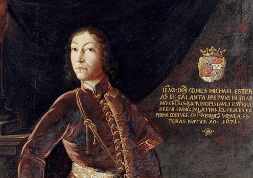 Michael I Esterhazy, prince Esterhazy